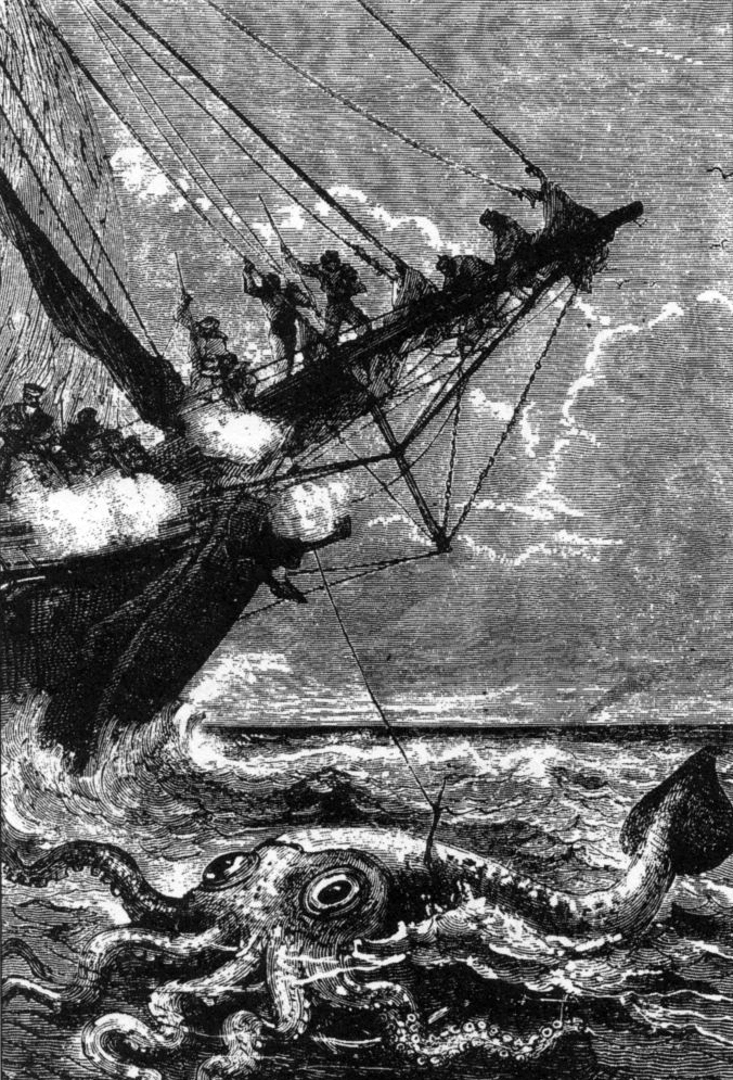 Illustration of a giant squid from 20000 Lieues Sous les Mers by Jules Verne.